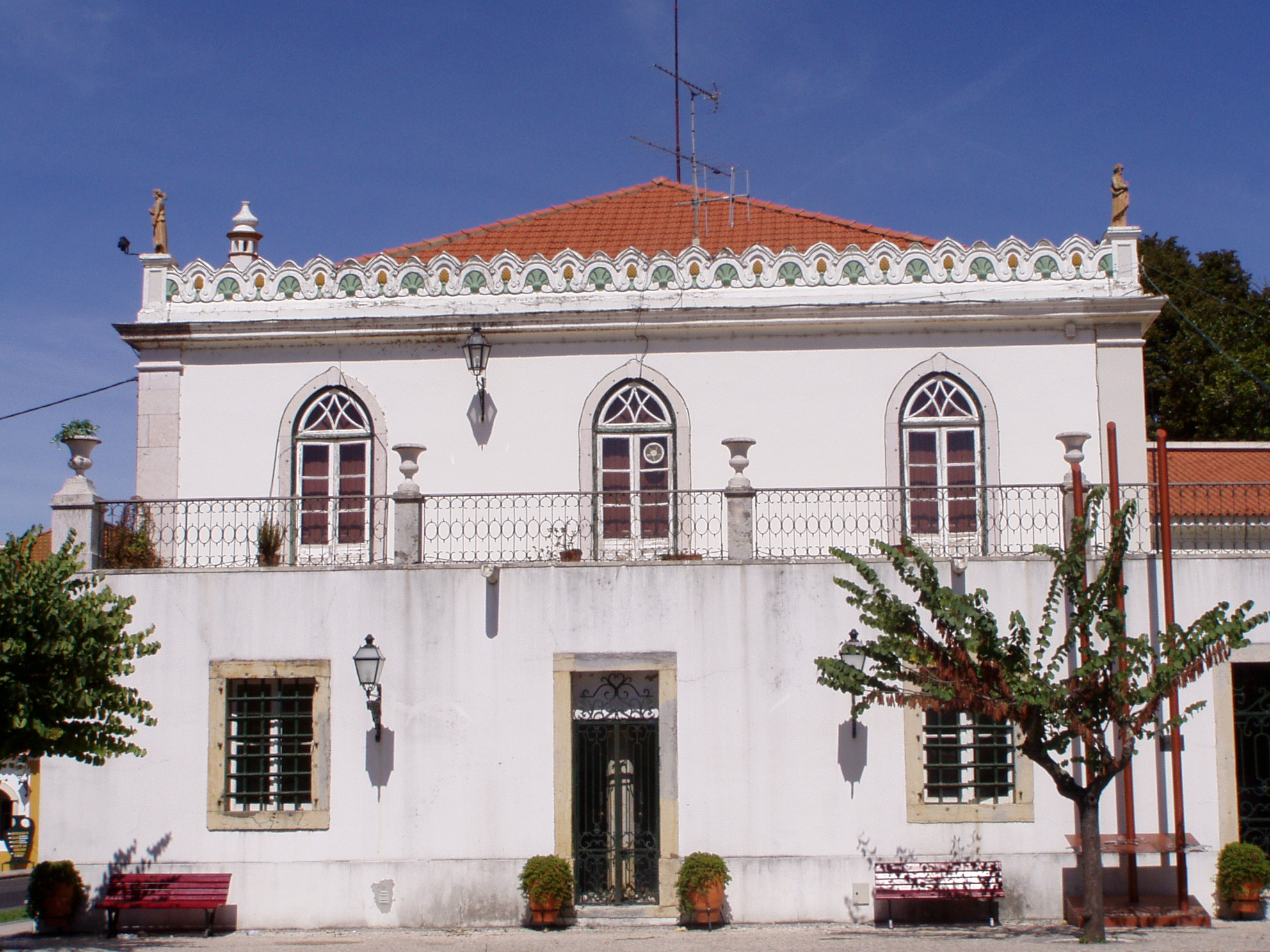 Town hall. Coruche, Portugal.